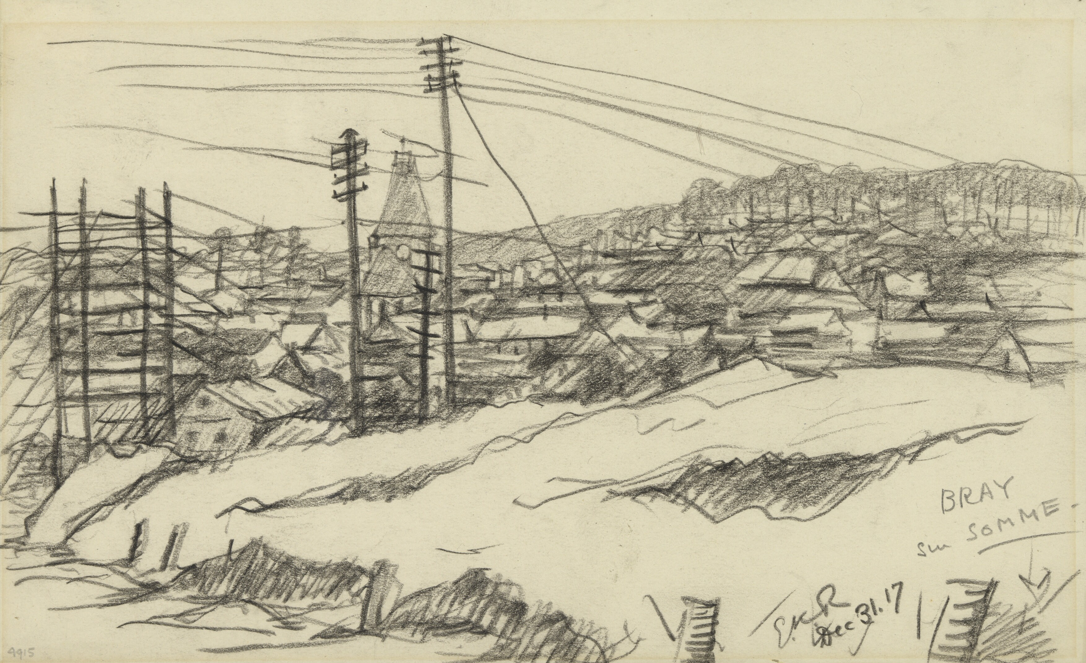 Bray-sur-somme, December 31 1917 image: a view across the roofs of buildings in Bray-sur-Somme, with a line of telegraph poles crossing the foreground.